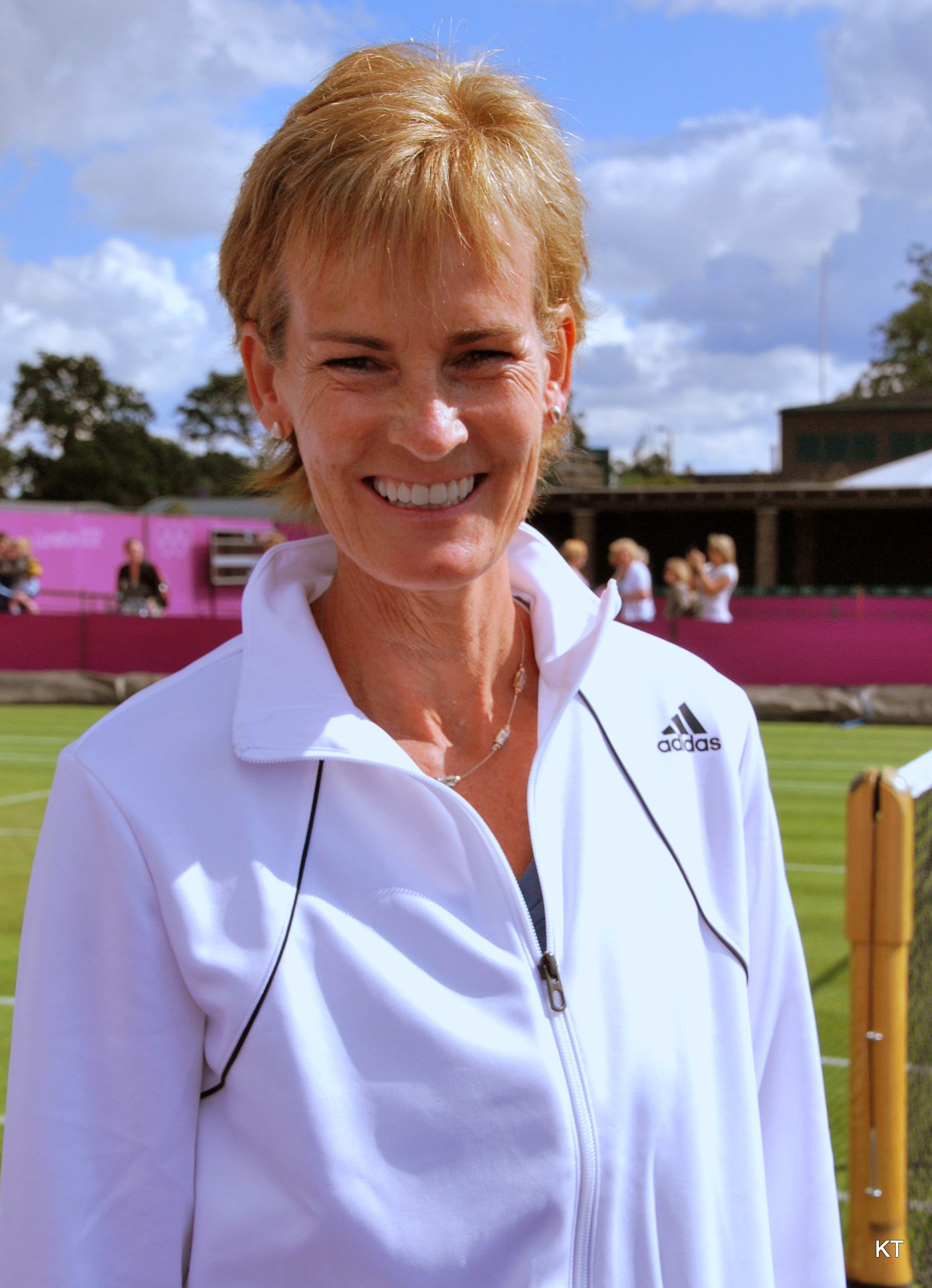 With Laura Robson on the practice court.